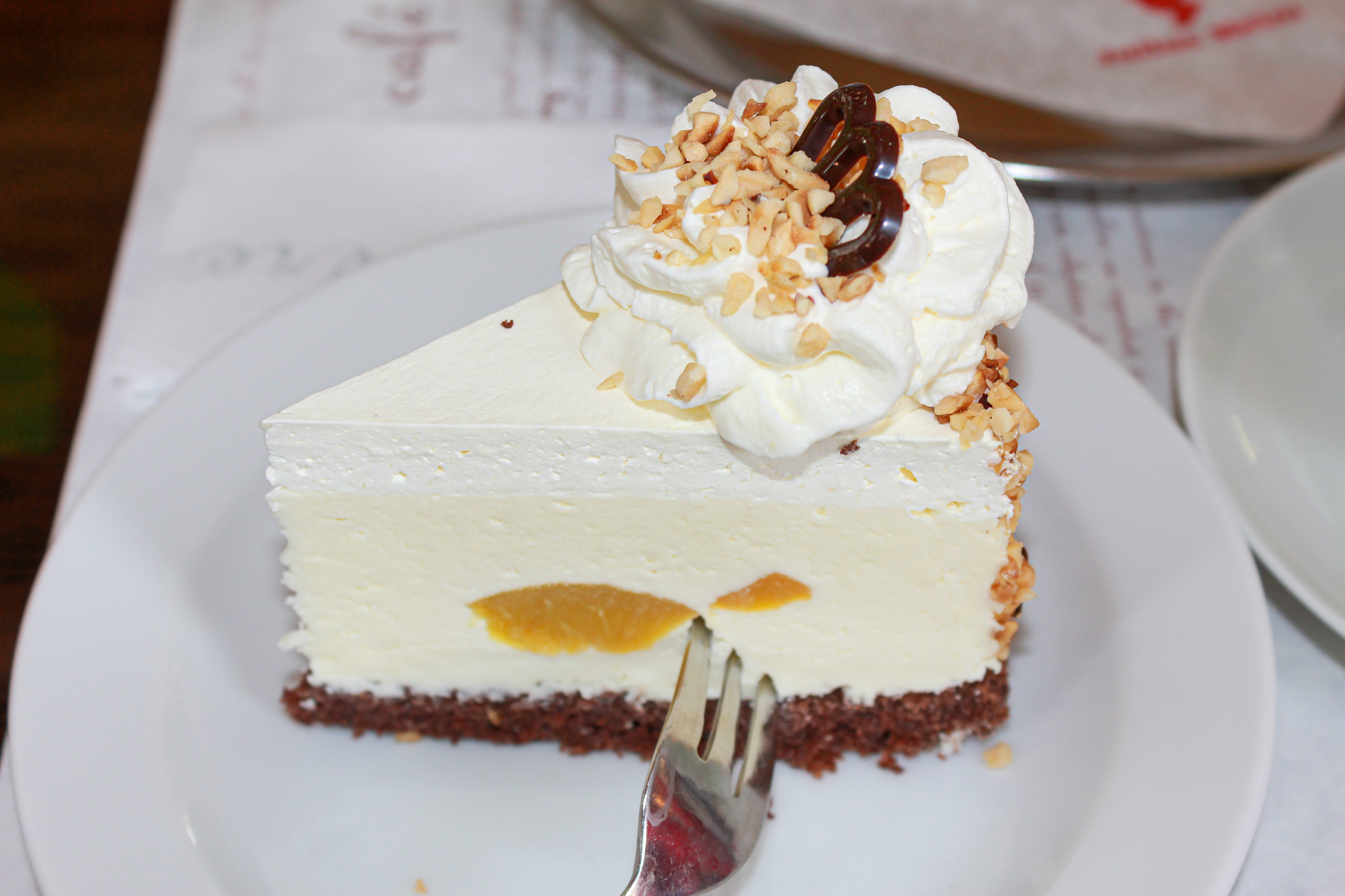 Cafe Louvre cheese cake